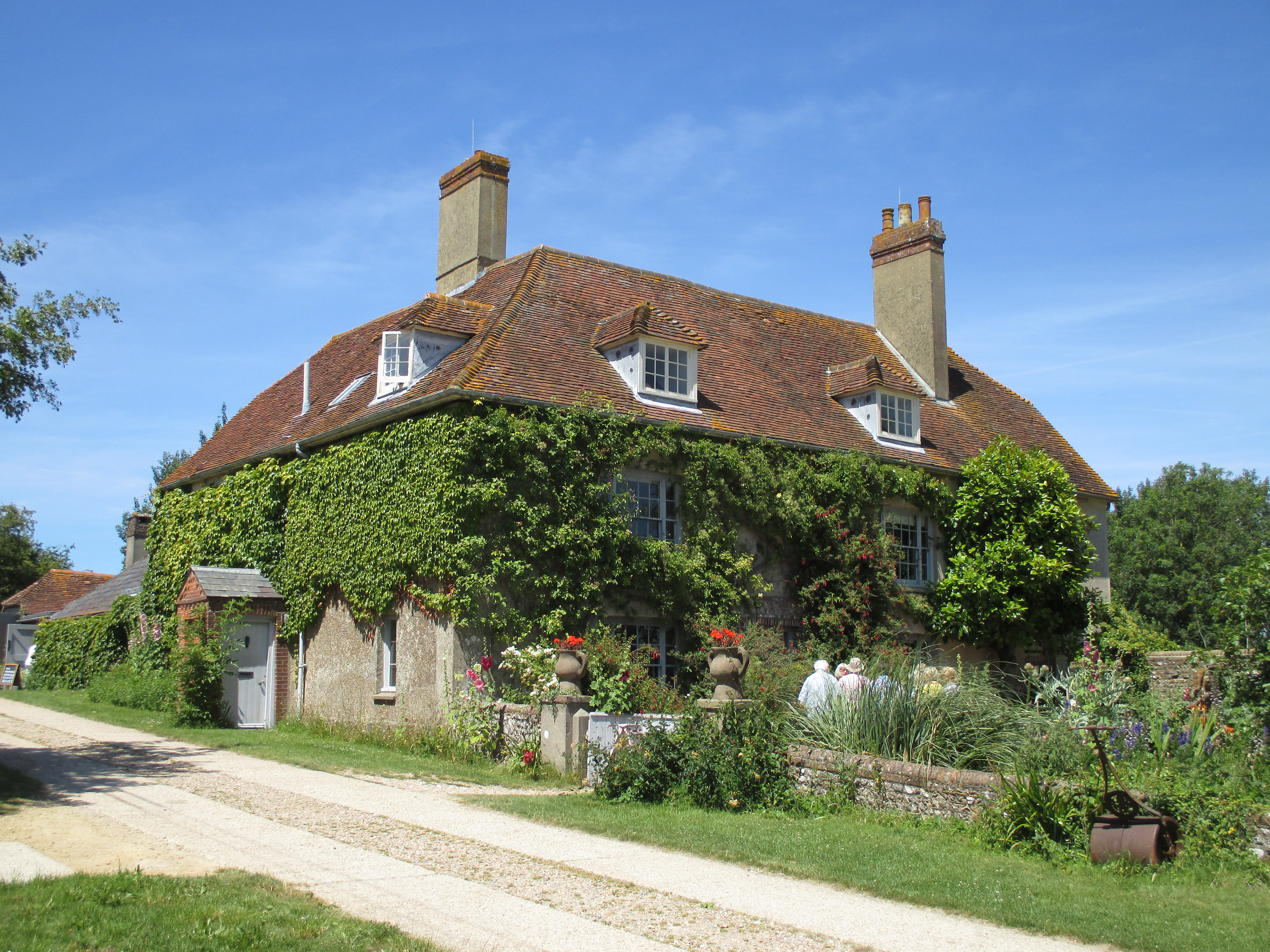 Charleston, a grade II* listed farmhouse about a mile east of West Firle, in East Sussex, seen from the south-east.